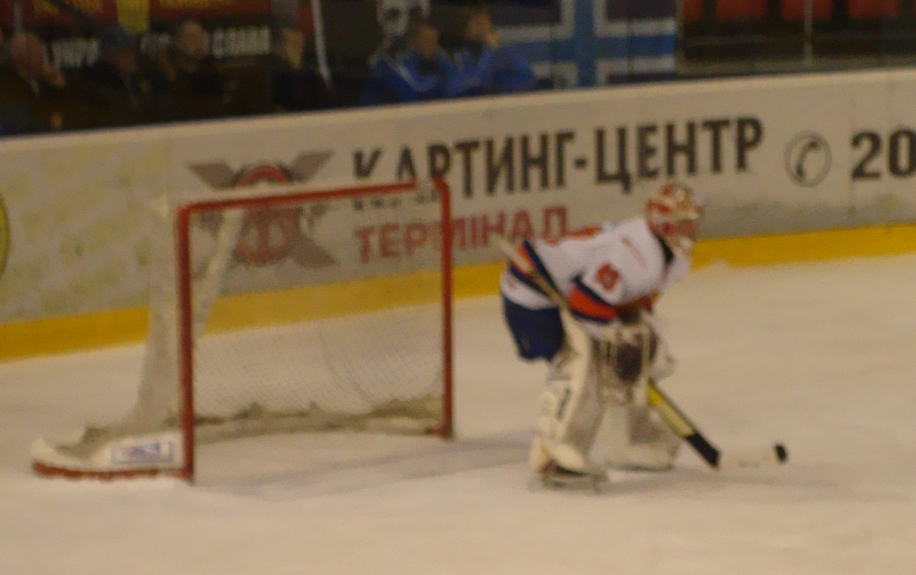 Goaltender Mika Oksa #93 of the Shakhtar Soligorsk stands during the Belarusian Extraliga game against Sokil Kyiv at Terminal on February 2, 2010 in Brovary, Ukraine. Shakhtar won the game 4-3.